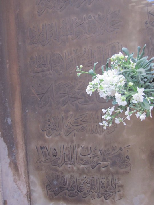 tomb of mohammad hossein ashani